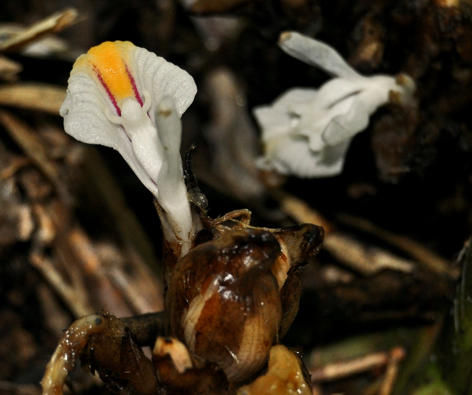 Amomum compactum, flower close-up. Situgede, Bogor, West Java, Indonesia.